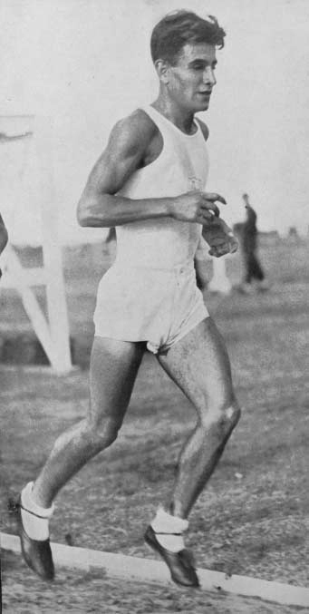 Argentine athlete Juan Carlos Zabala in 1931.